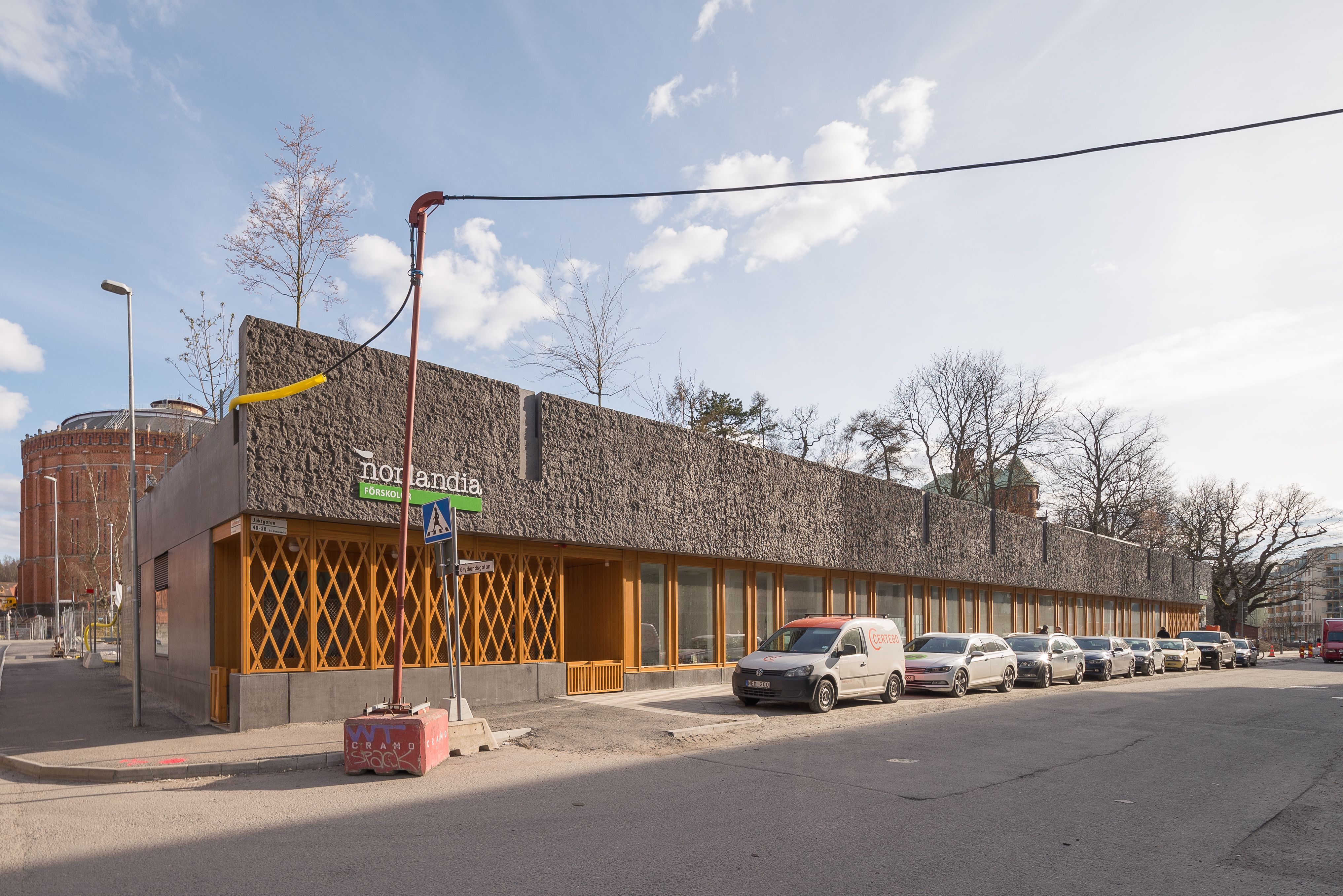 Preschool Ferdinand in Norra Djurgårdsstaden, Stockholm. Built 2016. Architect: Vera arkitekter.